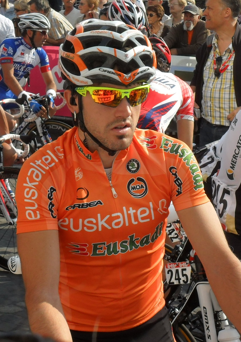 Ion Izagirre on Liège-Bastogne-Liège 2011 start line